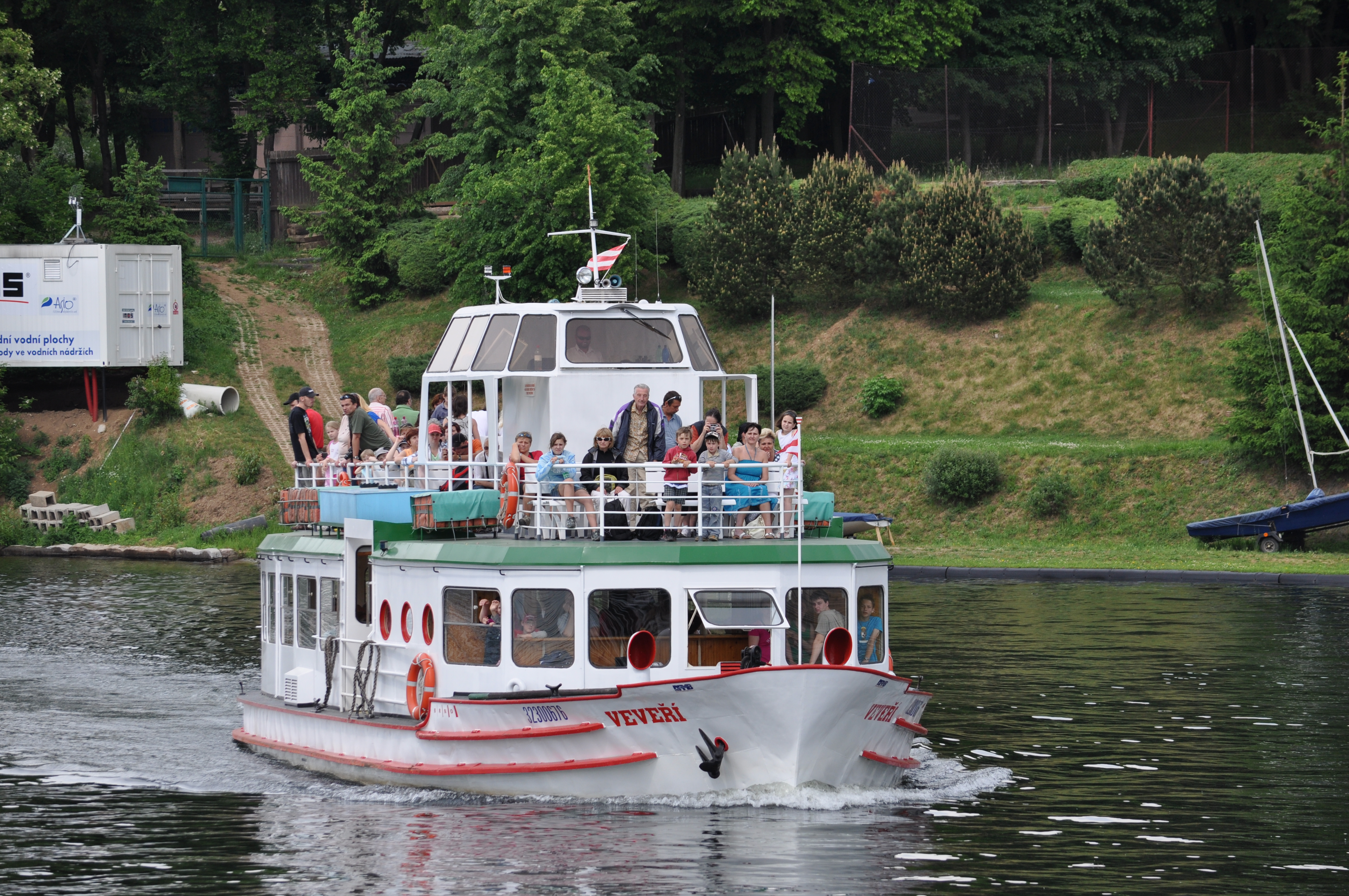 Brno Reservoir